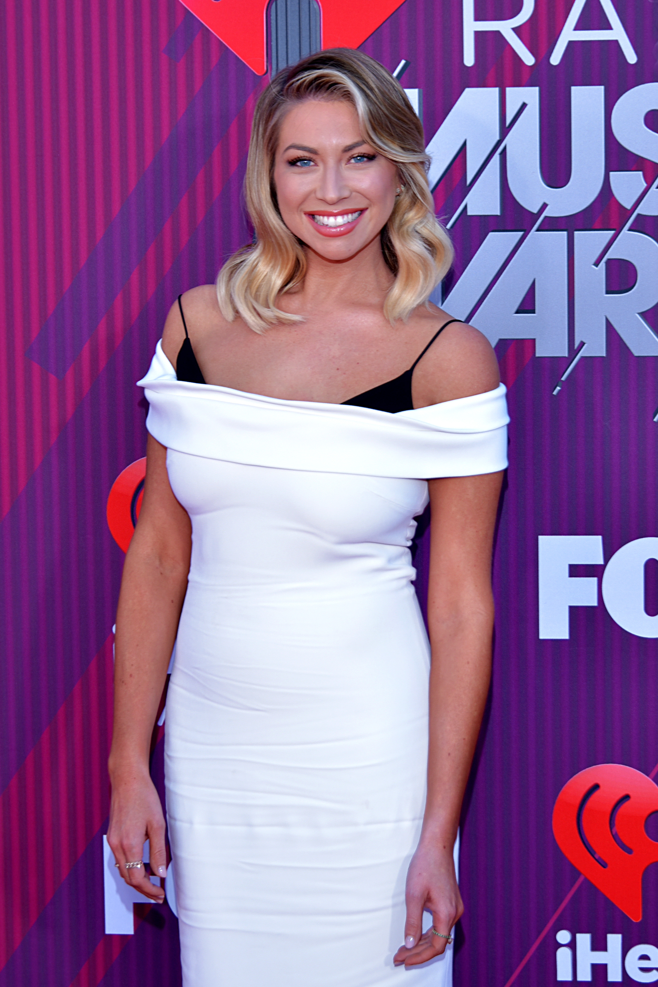 Stassi Schroeder at the 2019 iHeartRadio Music Awards in Los Angeles California on March 14, 2019 - Photo by Glenn Francis of